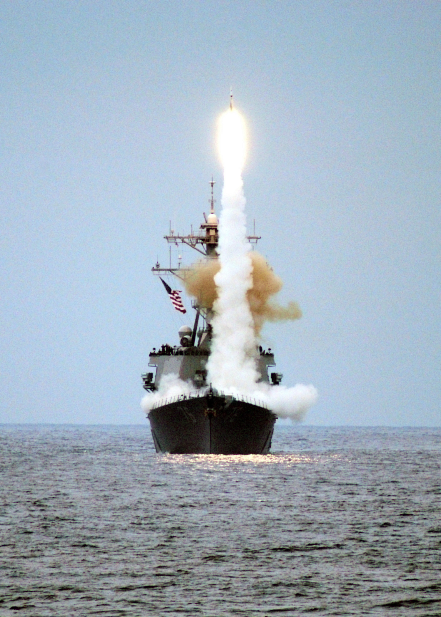 021018-N-8629M-001 At sea with USS Higgins (DDG 76) Oct. 18, 2002 – A Standard Missile Two (SM-2), Block IVA is fired from the guided missile destroyer during a live missile fire exercise. Higgins is part of the USS Constellation (CV 64) Battle Group, which is conducting operations in support of a Joint Task Force Exercise (JTFEX) prior to its scheduled six-month deployment. Live fire operations gives the ship’s crew the experience of launching operational weapons and honing their war-fighting skills. U.S. Navy photo by Photographer’s Mate Airman Apprentice Rebecca J. Moat. (RELEASED)